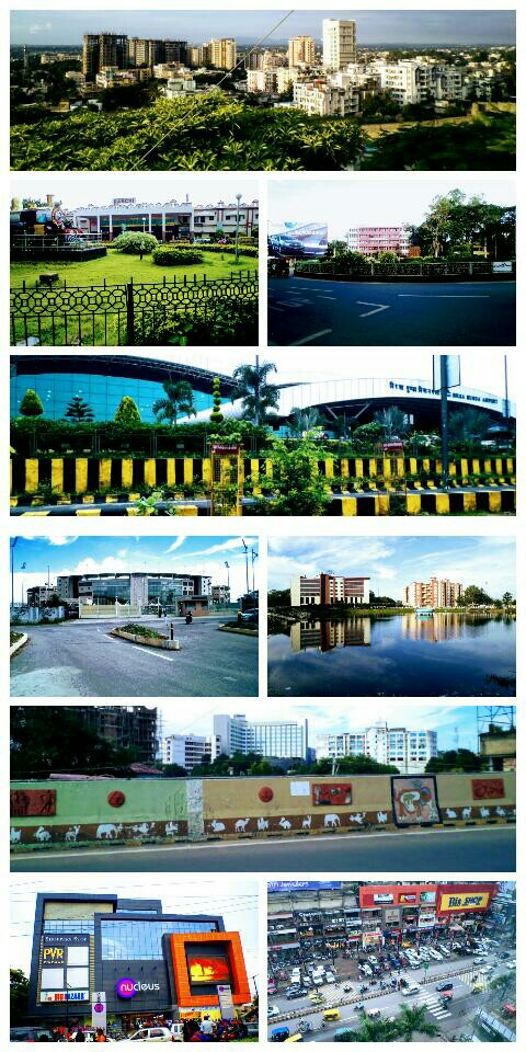 Source:- All 9 images in the collage are self - photographed.